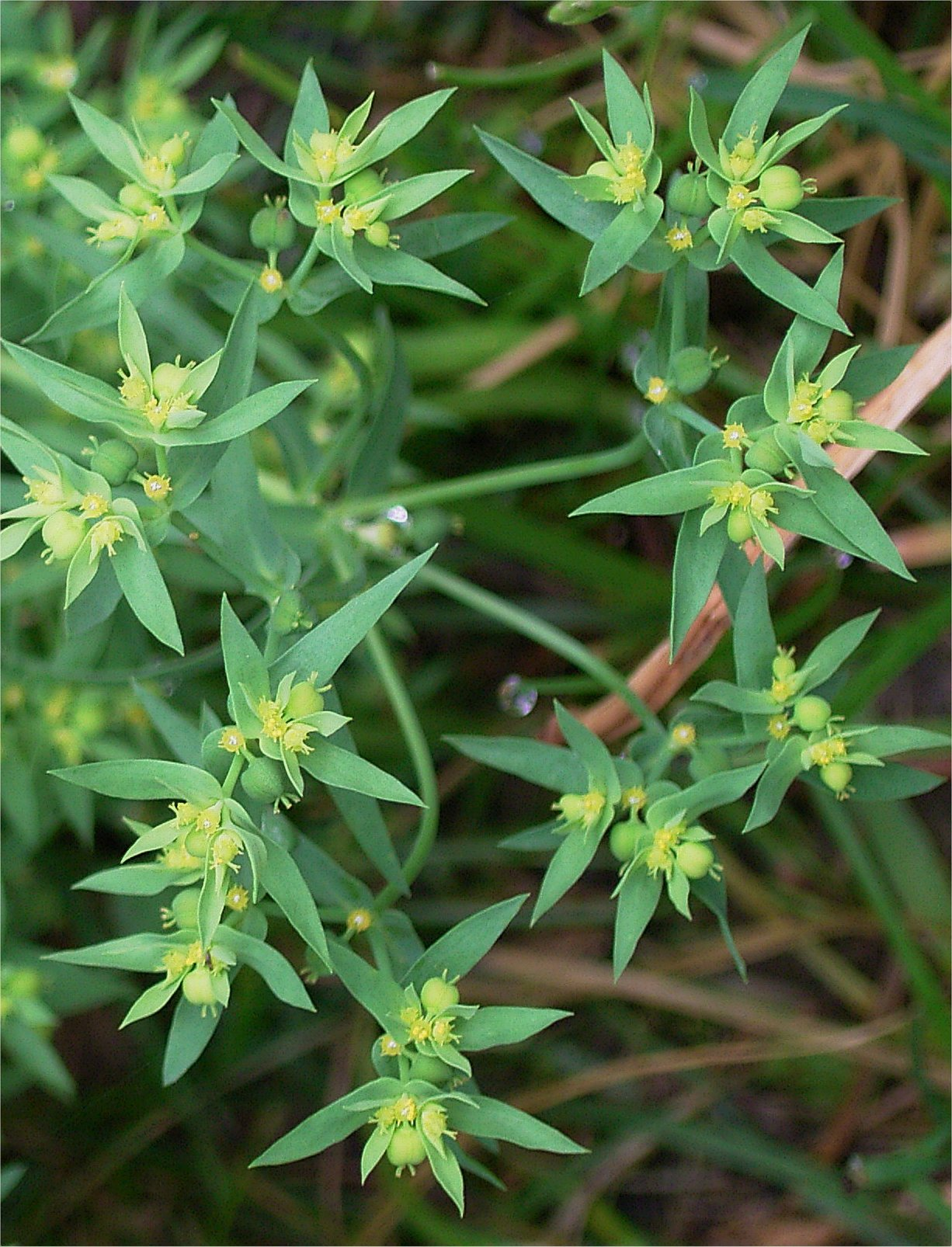 Euphorbia exigua in our garden